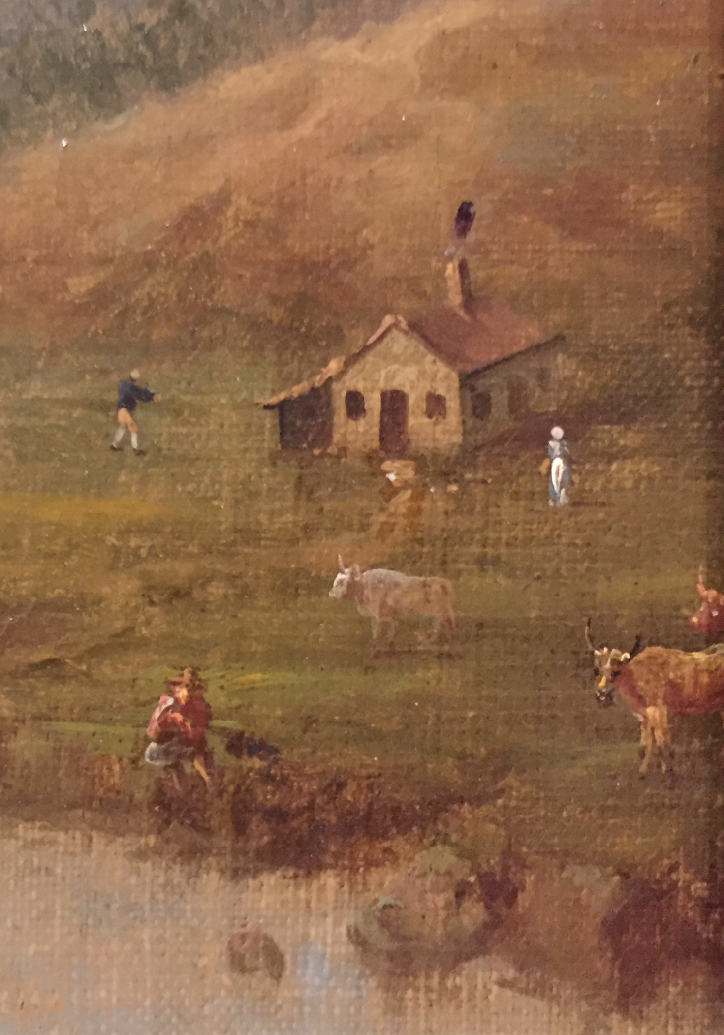 Inset of painting by Samuel Scott (c. 1702-7=1772) British Vessels at Anchor in Annapolis Royal, Nova Scotia, with a Rear-Admiral of the Red Firing a Salute, 1751 Based on drawing by John Henry Bastide, 1751;earliest known image of Acadians; only pre-deportation image of Acadians